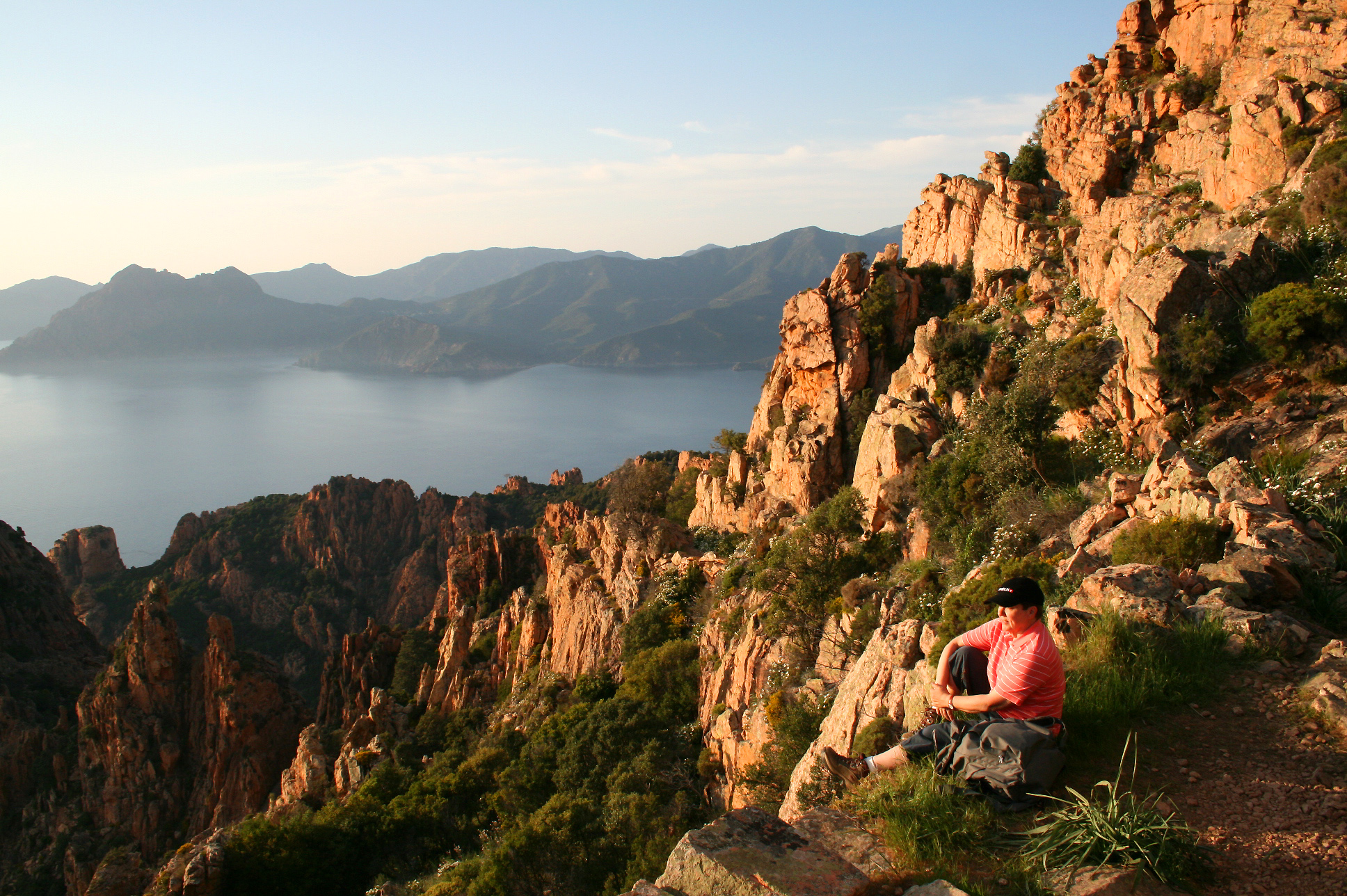 Piana ( Corse-du-Sud) - France, the Calanches of Piana. Walon: Piana (Corse-do-Sud) - France, lès Calanches di Piana.